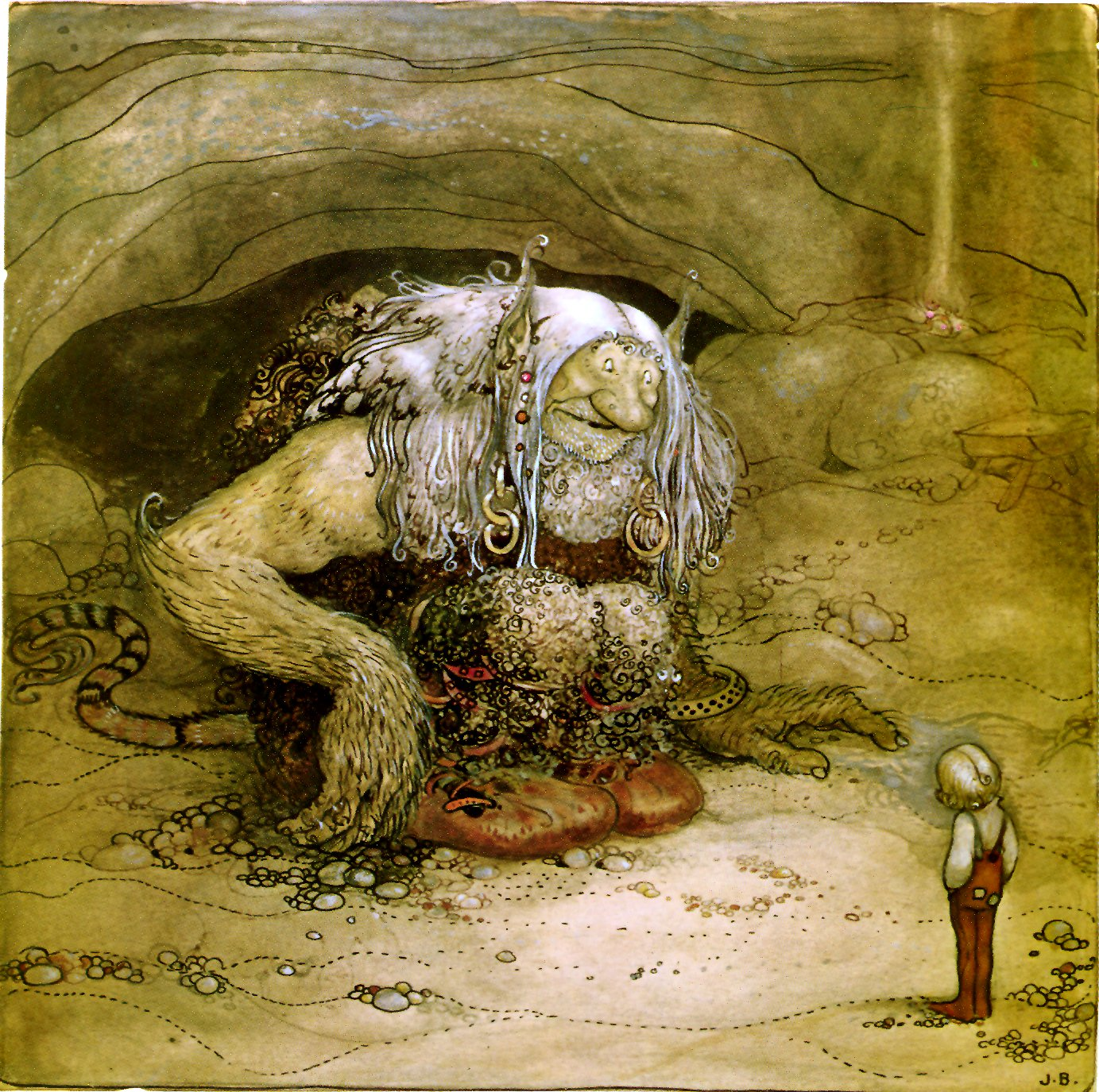 Illustration for "Pojken som aldrig var rädd" (The boy who was never afraid) by Alfred Smedberg in "Bland tomtar och troll" (Among gnomes and trolls), 1912. See also Image:Här ska du få en bit av en trollört, som ingen mer än jag kan leta rätt på.jpg and Image:Pojken som aldrig var rädd by John Bauer 1912.jpg from the same story.